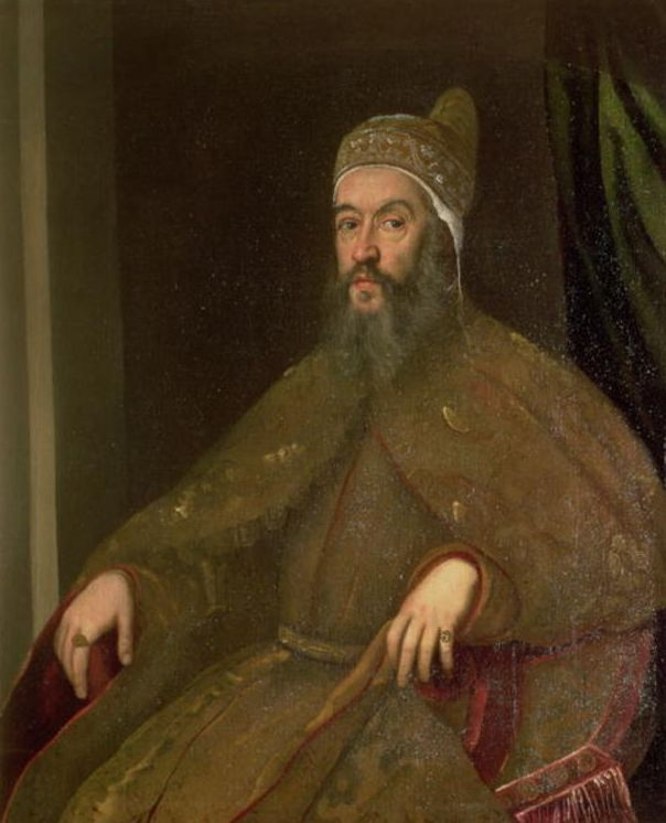 Portrait of the doge of Venice Alvise I Mocenigo (1507-1577)